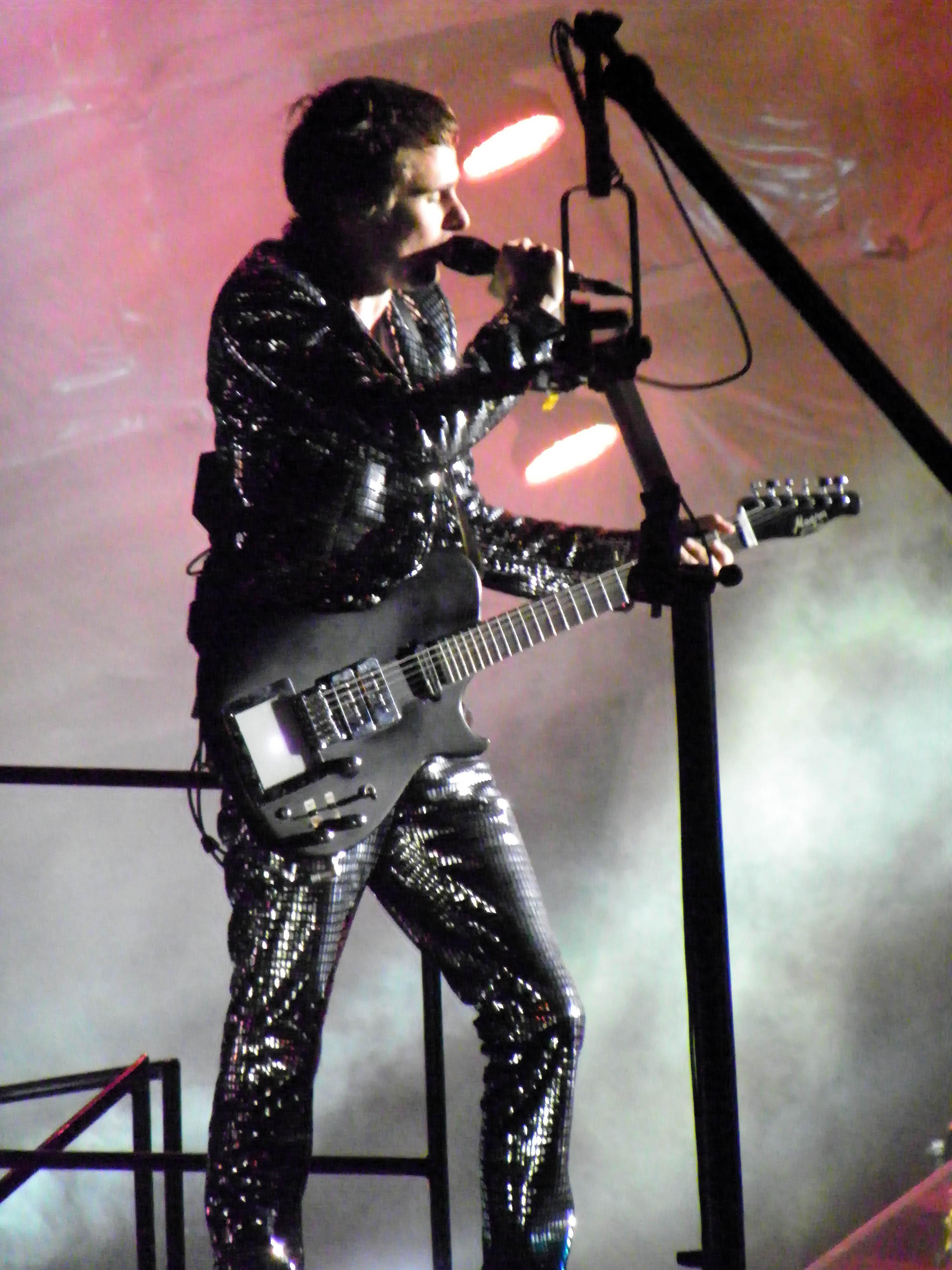 Muse Matthew Bellamy, Live at Wembley Stadium, London, UK, 10 September 2010